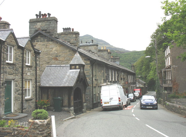 The north end of the main street (A496) of Maentwrog